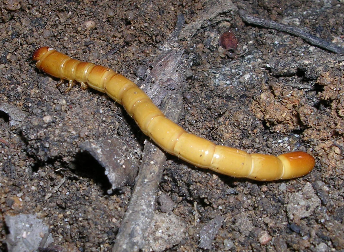 Elateridae Cebrioninae larve. Genus Cebrio, perhaps sp. Cebrio Corsicus. About 10cm long. Costa Paradiso, Sardinia.